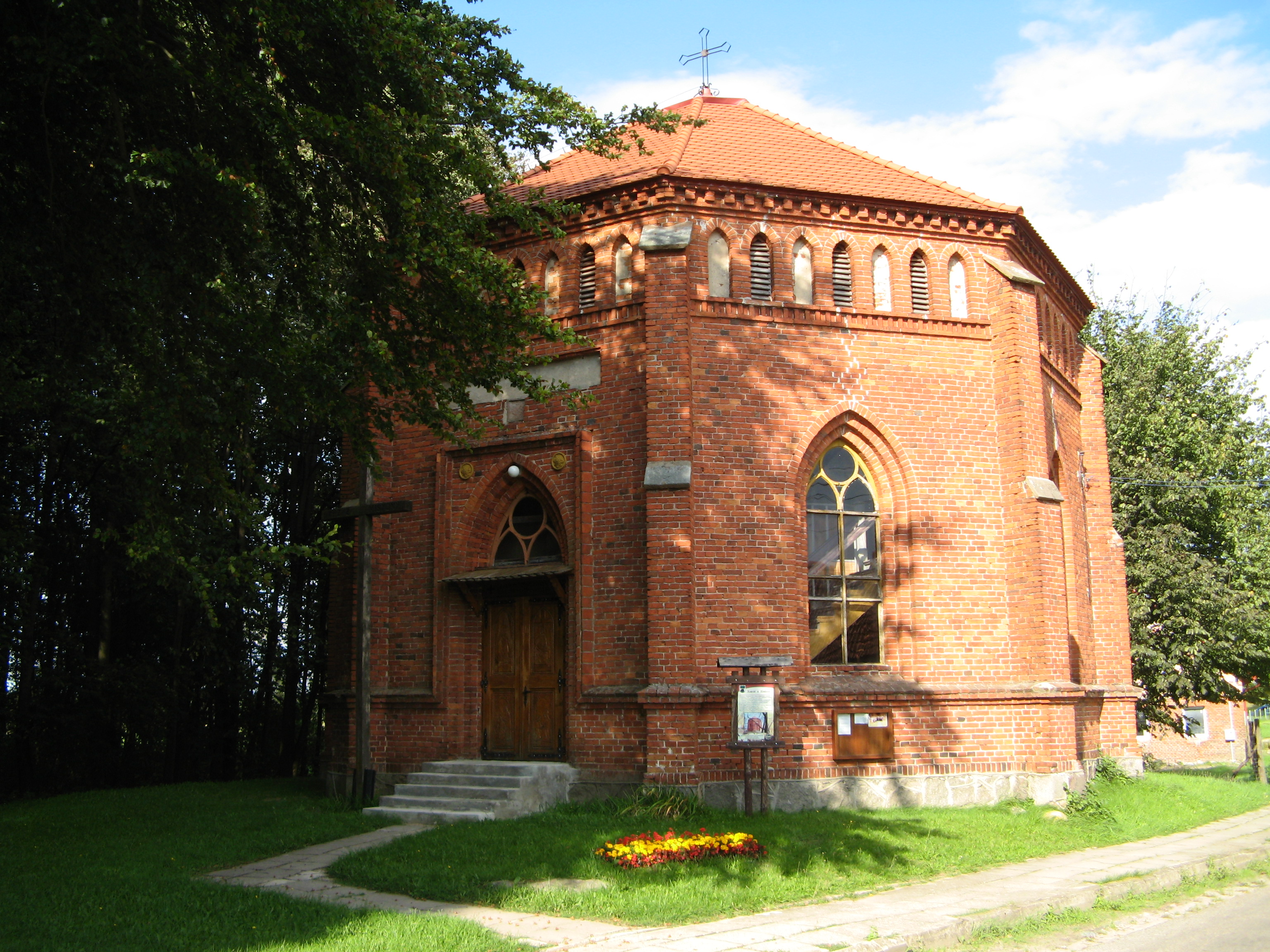 Church of the Nativity of the Virgin Mary in Kłodzino, West Pomeranian Voivodeship in Poland